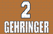 A recreation of how it looks at Comerica